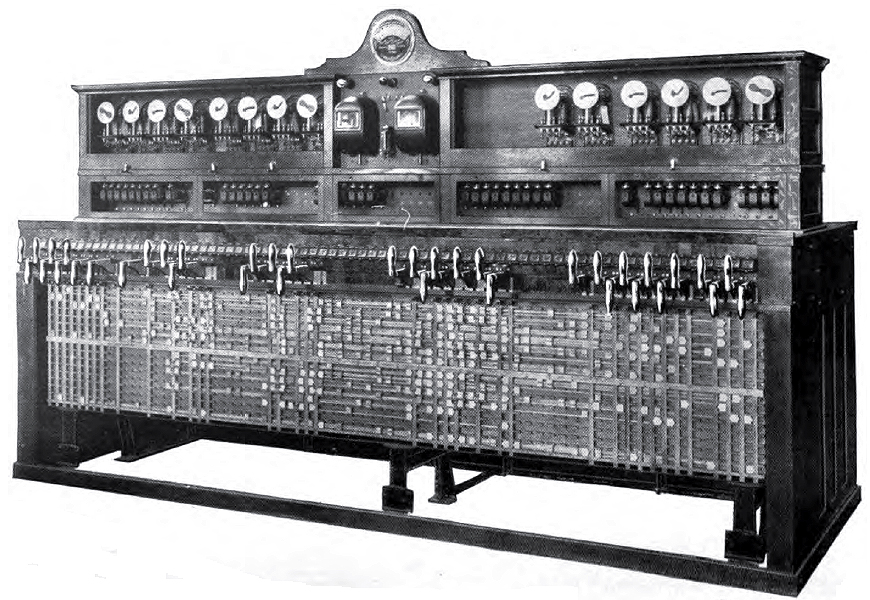 View of GRS Model 2 unit lever type interlocking machine, in combination with operating switchboard and indicator groups.